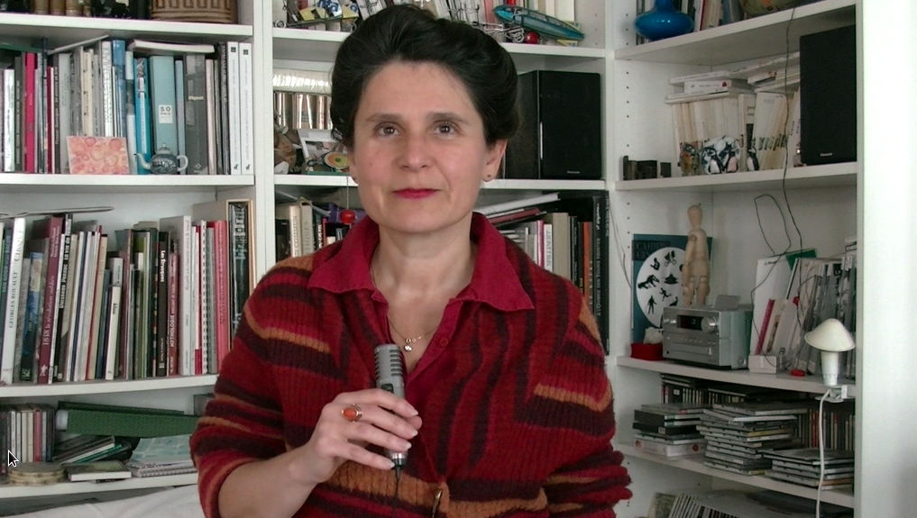 Portrait of Sophie Wahnich, French historian.